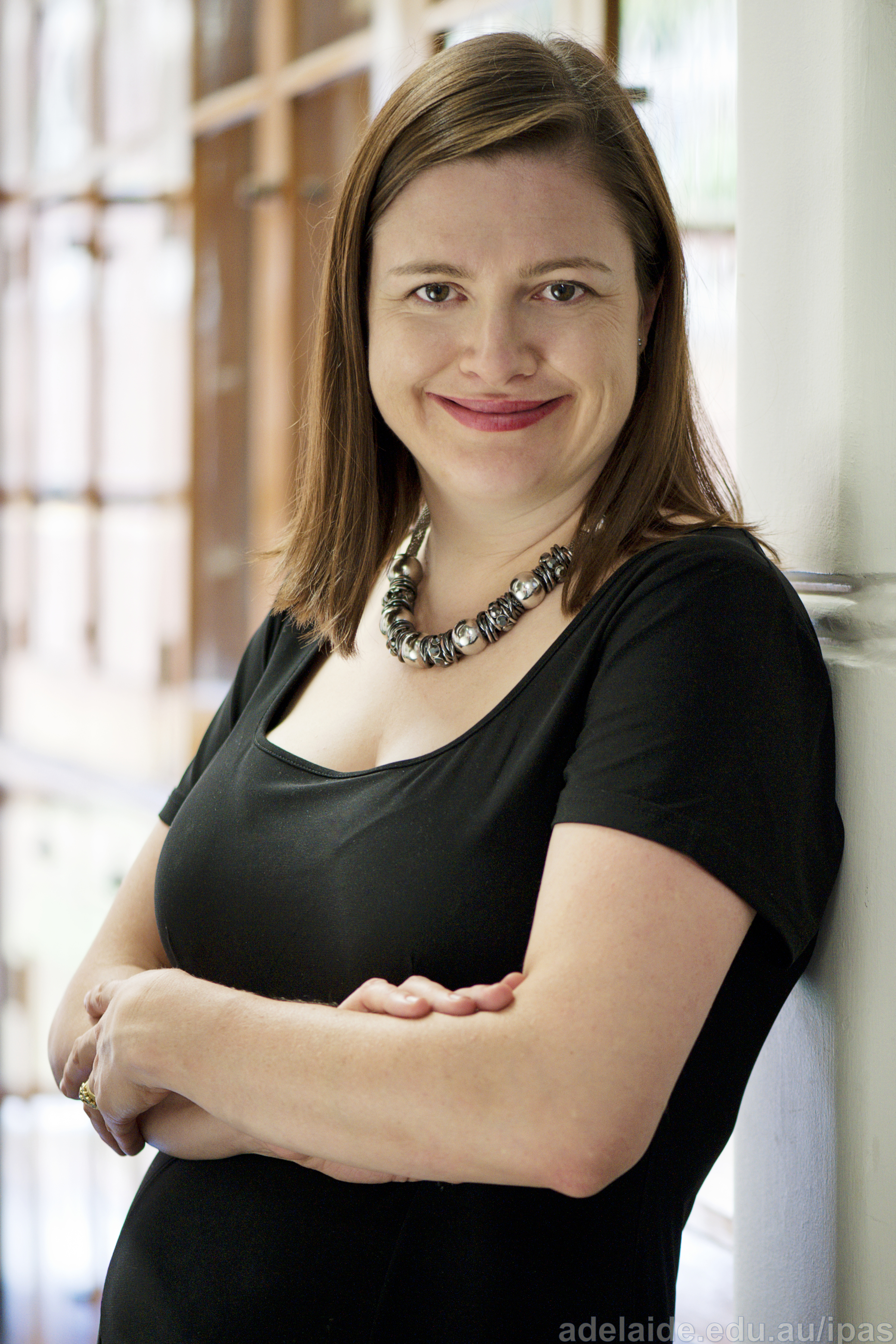 Artist: Jennie Groom Giving Attribution: Permission to use this image has been granted in advance. Please do the right thing by giving attribution: - as a hyperlink to this image on flickr (where possible) - image courtesy of Professor Tanya Monro .au/ipas 080-IPAS_178